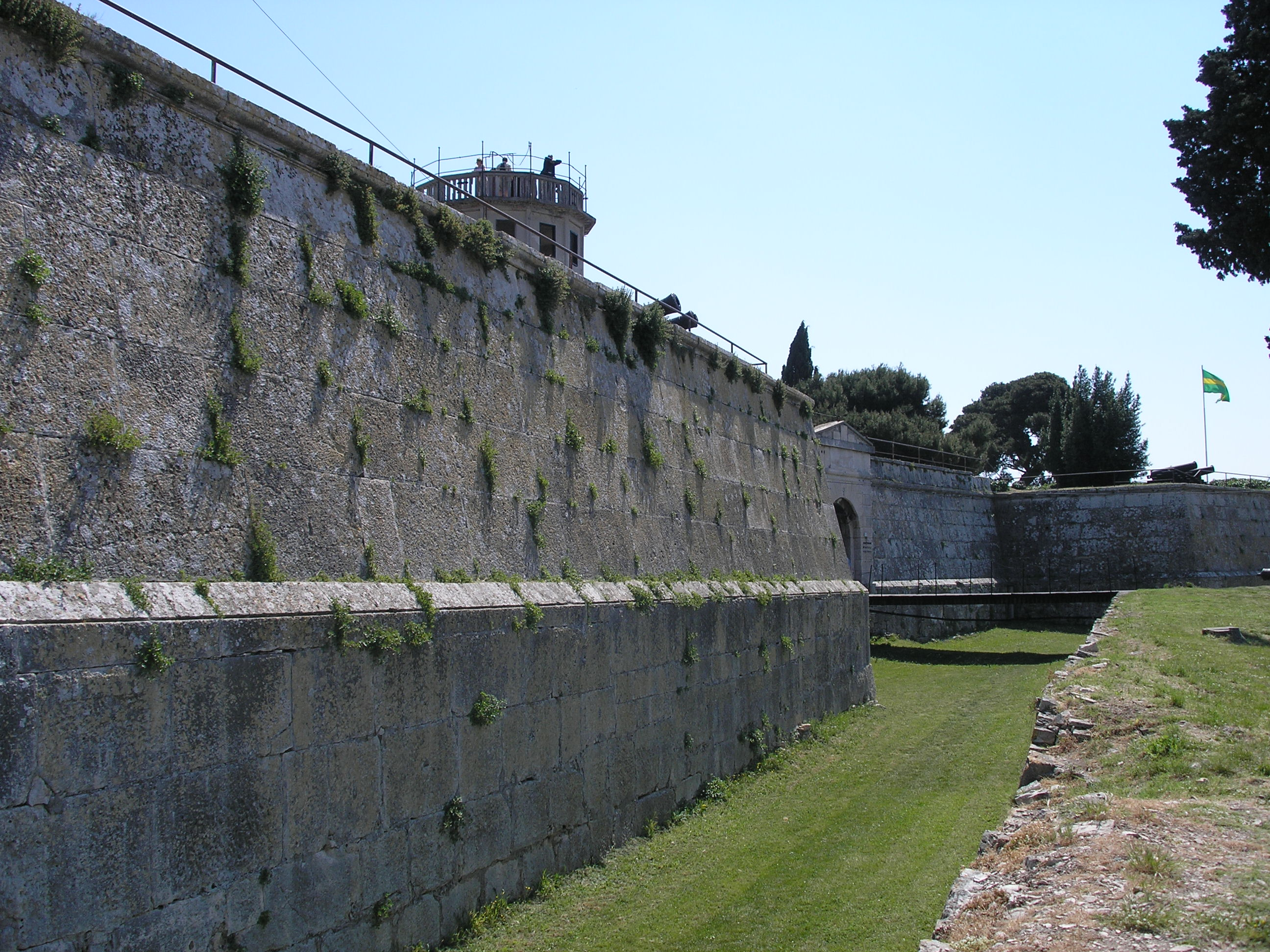 Venetian-era fortress in Pula, Croatia